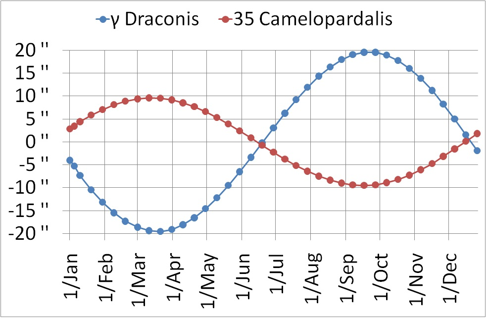 James Bradley's observations of γ Draconis and 35 Camelopardalis as reduced by August Ludwig Busch to the year 1730. The data is found in Reduction of the Observations Made by Bradley at Kew and Wansted by Busch (1838).